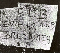 La plaque de bois retrouvée sur les lieux de l'attentat de Roc'h Trédudon le 14 février 1974.